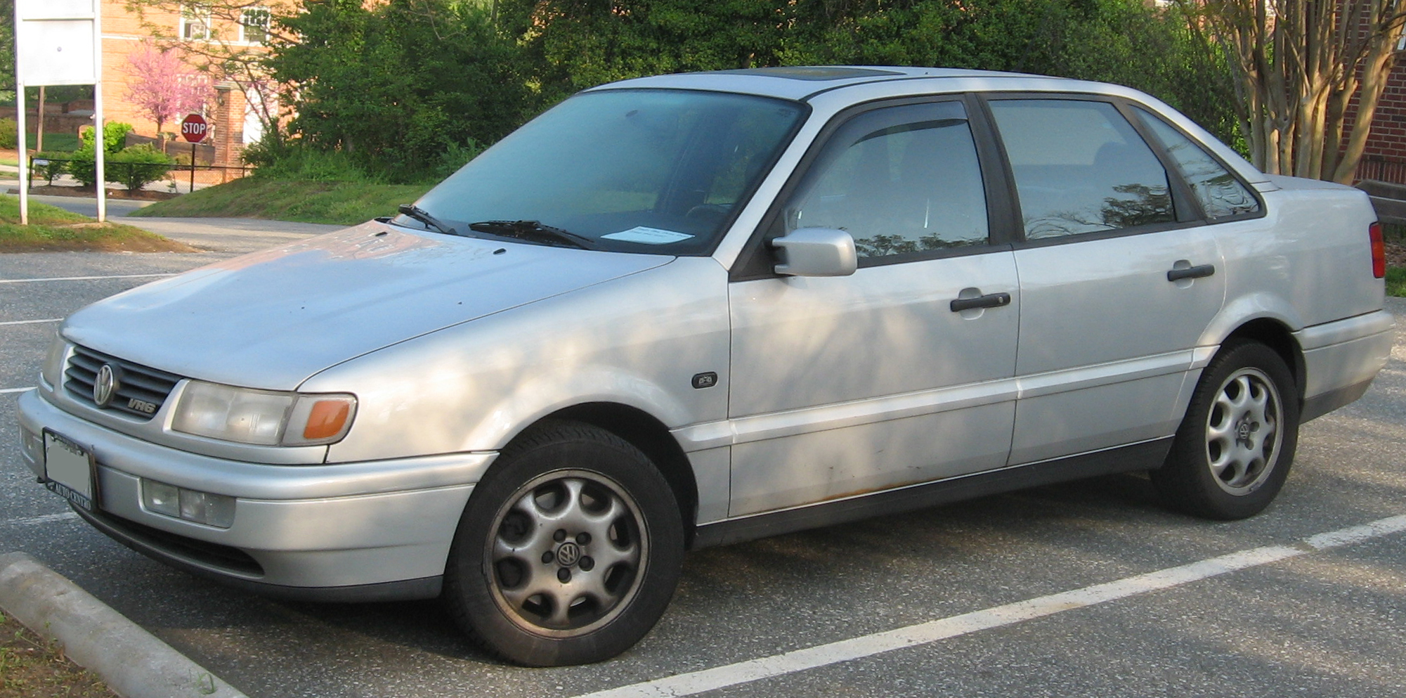 1994-1997 Volkswagen Passat photographed in College Park, Maryland, USA.